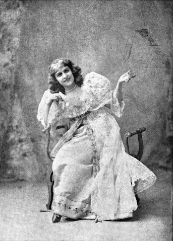 Soubrette Annie Lewis